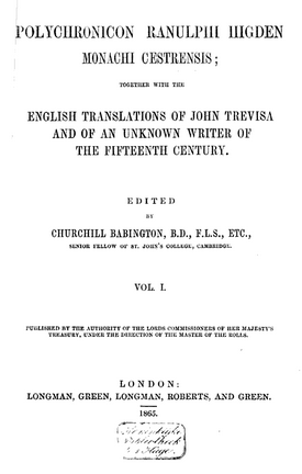 Polychronicon Ranulphi Higdin, Monachi Cestrensis: Together with ..., Volume 1, Ranulf Higden, John Trevisa